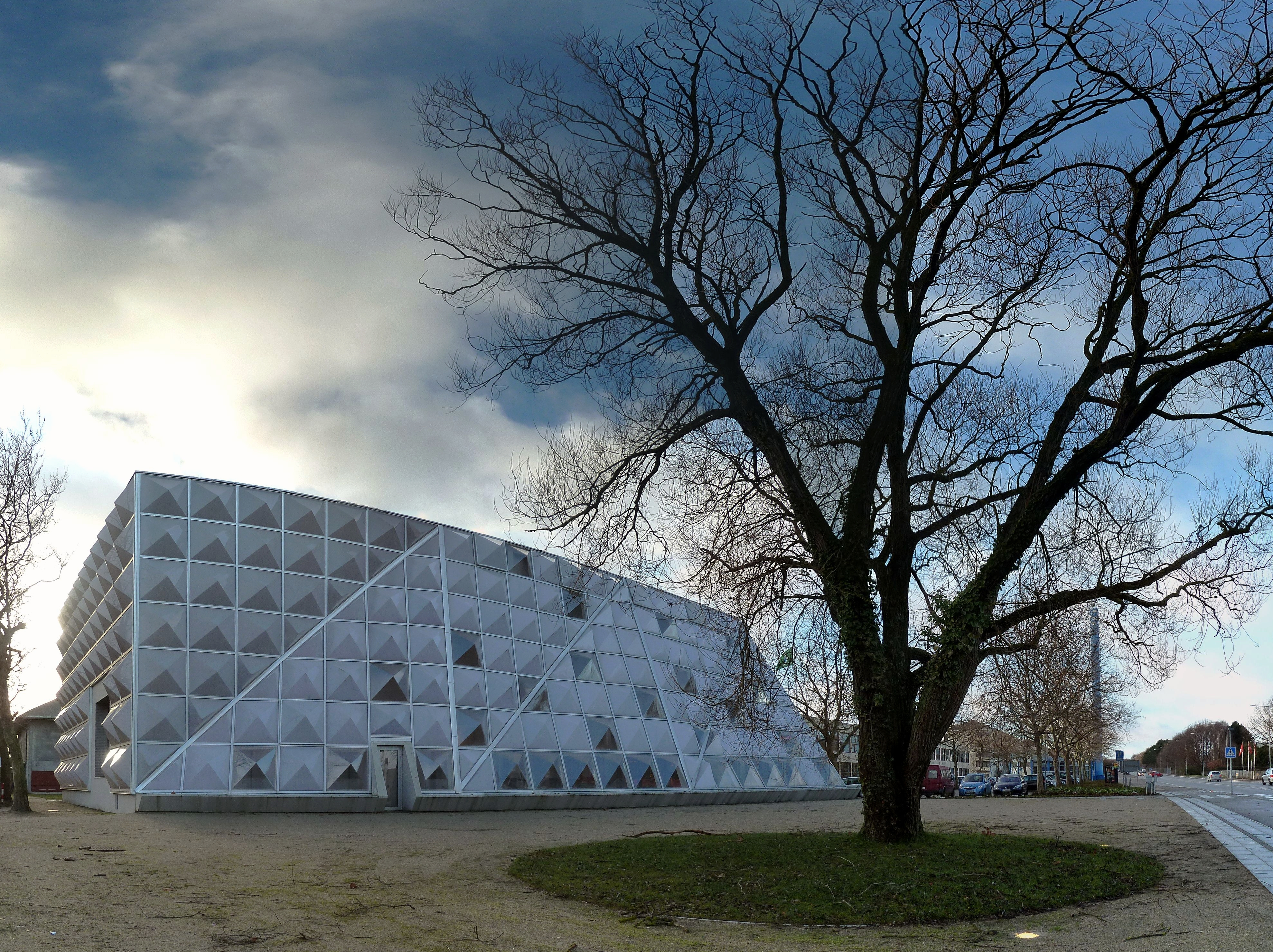 is just the nearby local art theatre called "Taastrup Teater" with its new façade. The core of the building is from the 70s and it used to be a gymnastics building for the school next door. When it was converted to a theatre they painted the grey concrete in a nice yellow ochre. This is... different? Rumour has it, that the former director was quite "creative" regarding the accounts, so now there's a risk the whole thing will be closed down...